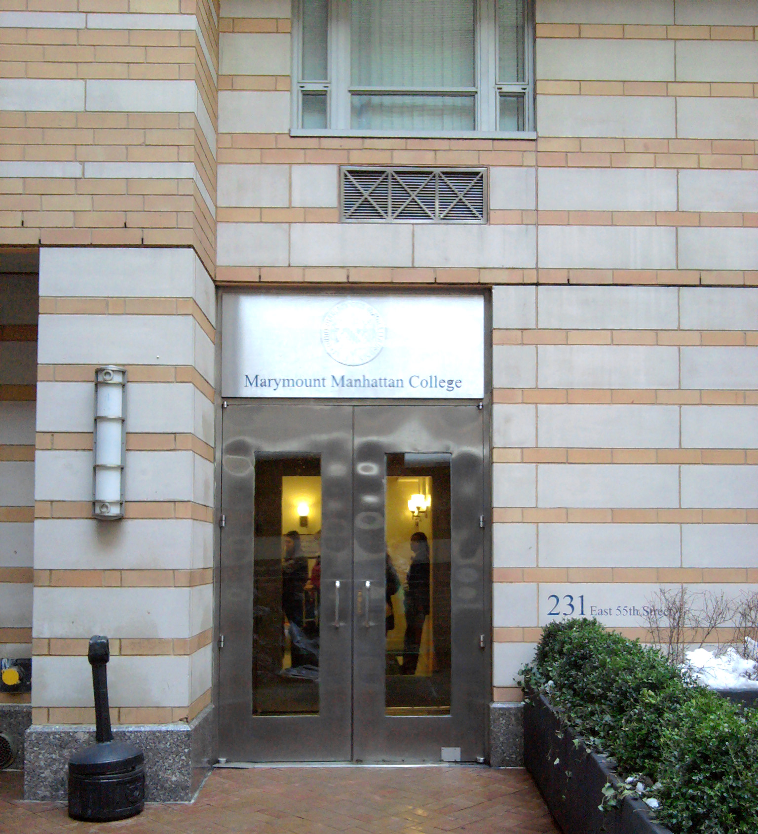 Looking north at front door of 231 East 55th Street dormitory of Marymount Manhattan College.